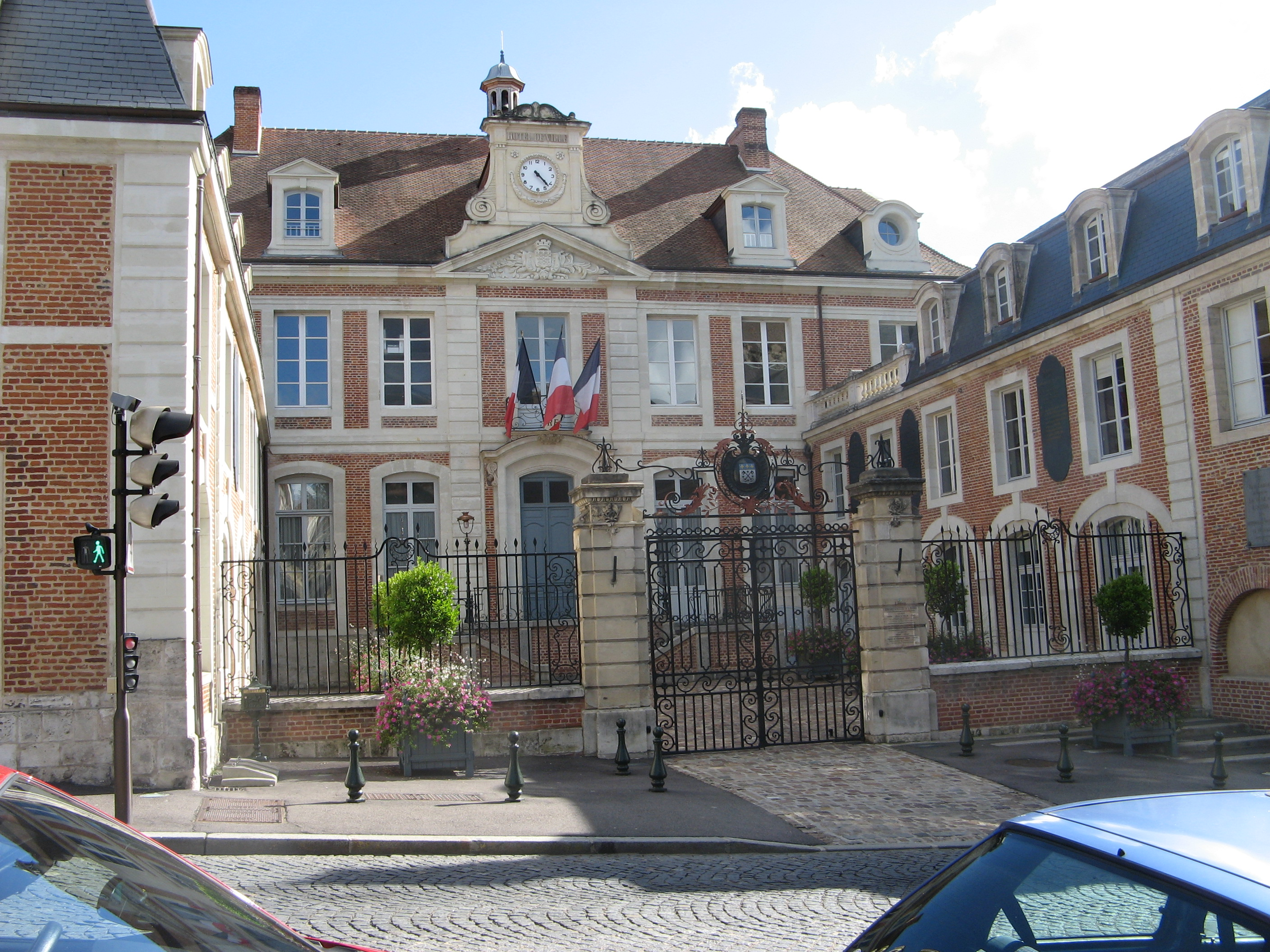 City hotel of Lisieux, France.